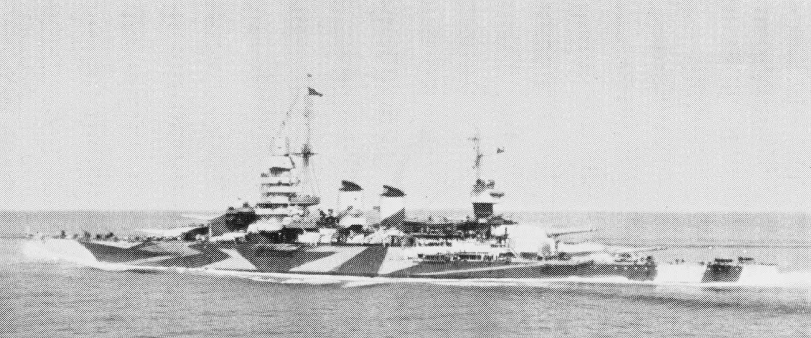 The Italian battleship Caio Duilio surrendering at Malta on 9 September 1943.